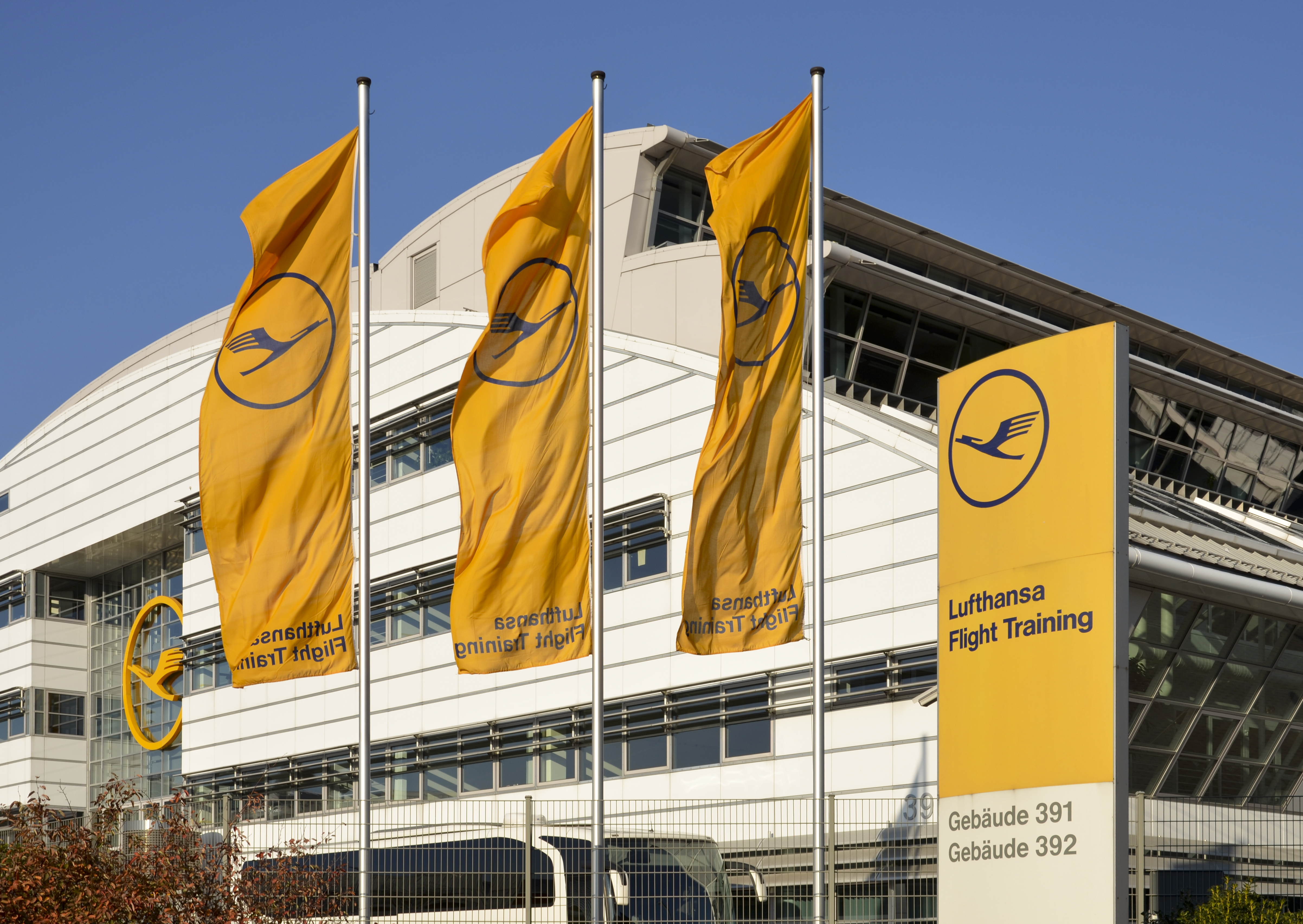 Lufthansa Flight Training Center at the Frankfurt airport (Fraport)